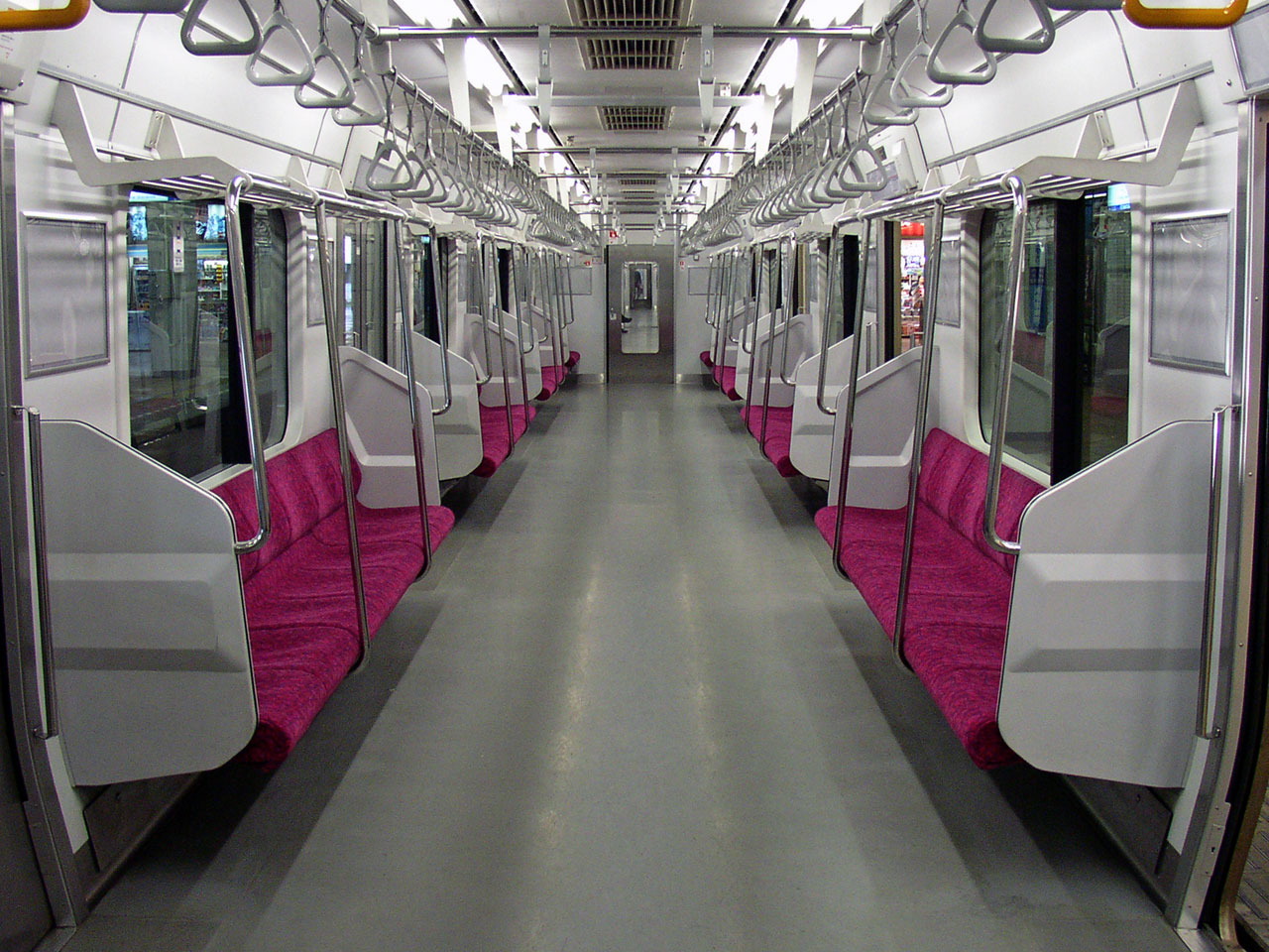 Cabin of Sotetsu (Sagami Railway Co. Ltd.) 10000 Series EMU